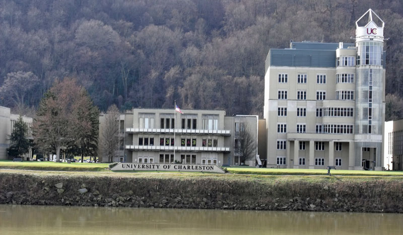 The campus of the University of Charleston, as seen from the grounds of the West Virginia Capitol across the Kanawha River